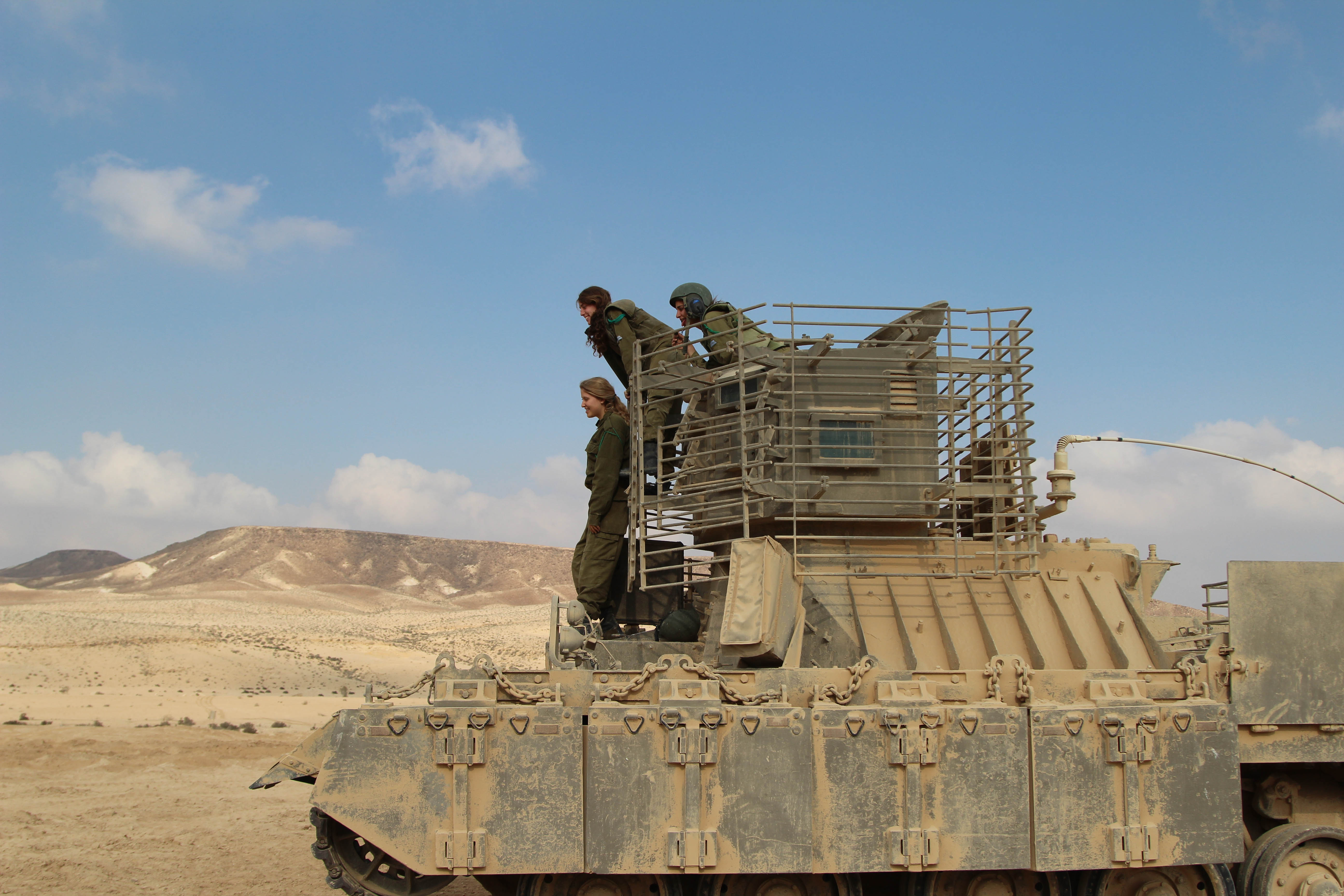 January 1, 2013 Female tank instructors of the School of Infantry Professions conducted a drill with their Nagmachon tanks and armed hummers on Tuesday. These instructors are always training together since they are responsible for teaching all infantry soldiers in different professions, whether it be operating tanks and/or mastering firearms. Photo by Cpl. Zev Marmorstein, IDF Spokesperson Unit The Israel Defense Forces Facebook • blog • Twitter